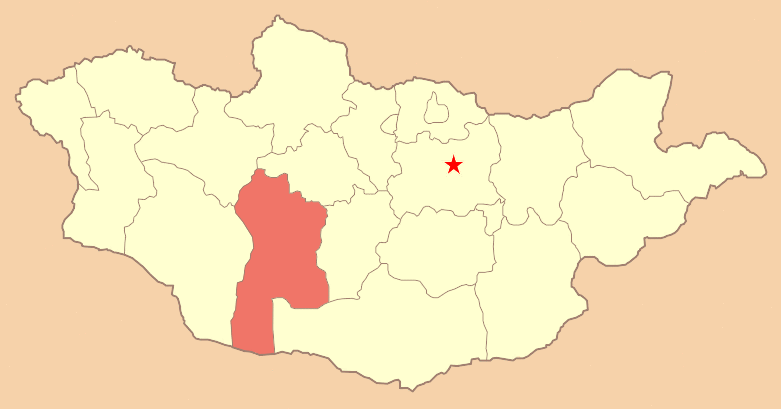 Map of Mongolia with Bayankhongor Aimag highlighted.